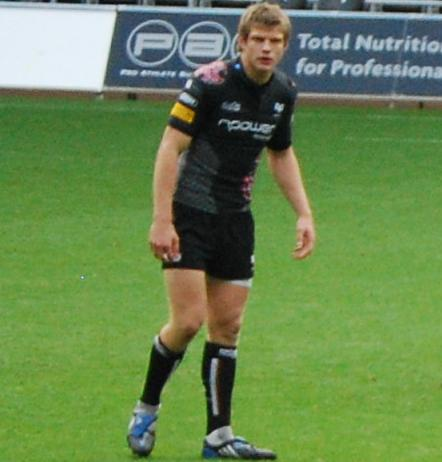 ospreys vs Harlequins - Dan Biggar